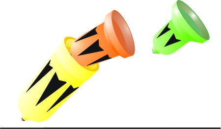 simultaneous activation of three Footops